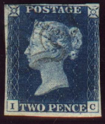 Two Pence Blue